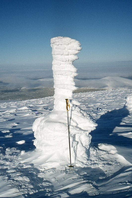 Rimed post near Cairn Gorm summit. Rime builds up in clouds when supercooled droplets (liquid water below freezing) carried by the wind impact on any obstacle and immediately freeze. The ice therefore builds out towards the wind, like a flag in reverse, so here the wind has been from the right. From the length of the ski stick (just over 1 metre), I estimate about 45 cm of rime at the top of the post. There is usually more rime higher above ground level since the wind is stronger away from the surface. This shows why cairns and posts cannot be relied on as waymarkers in winter - in a whiteout this would be invisible!